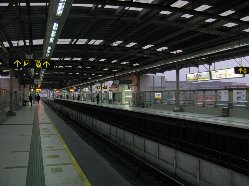 Line 3 Platform of West Yingao Road Station